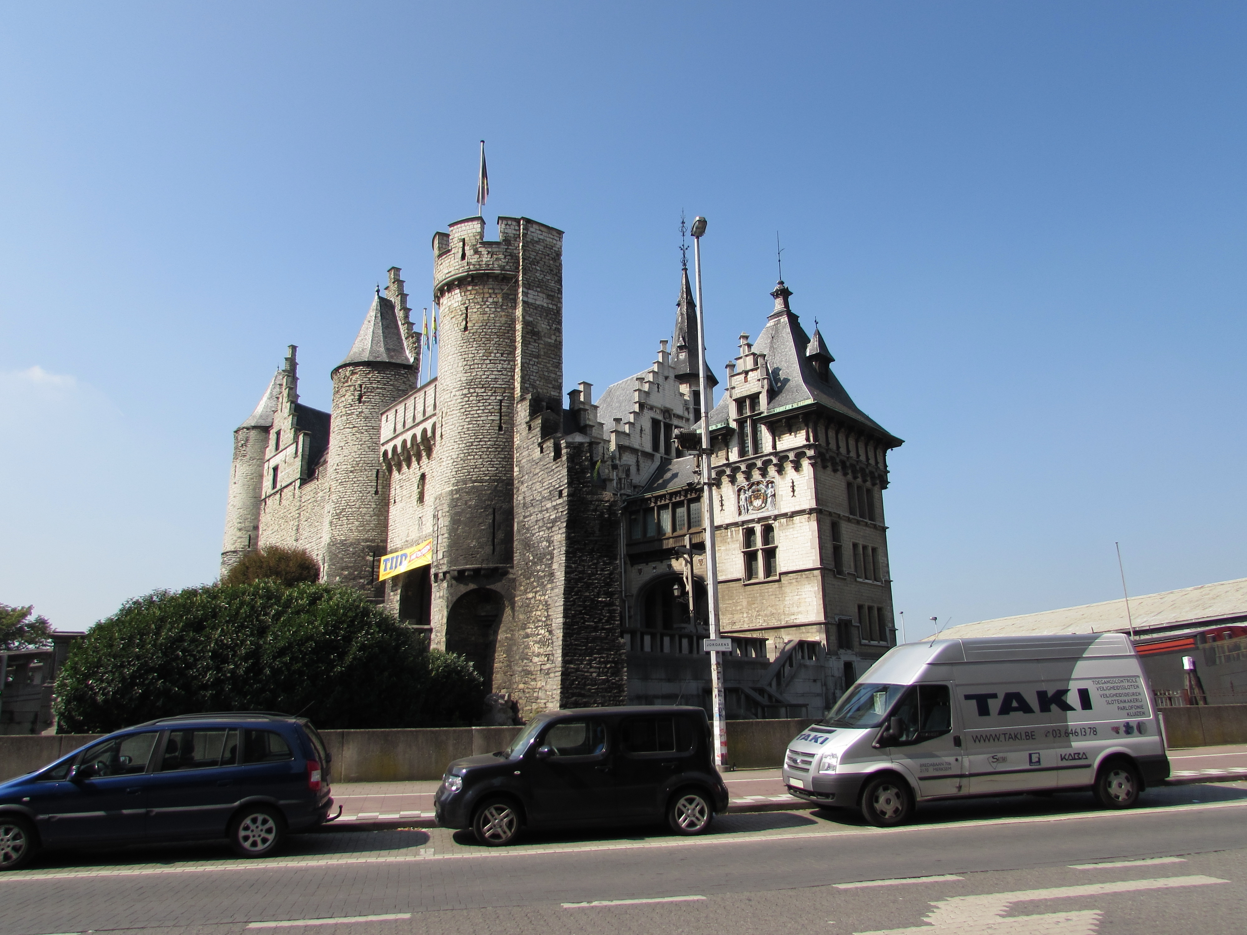 Het Steen castle seen from Ernest van Dijckkaai street in Antwerp, Belgium